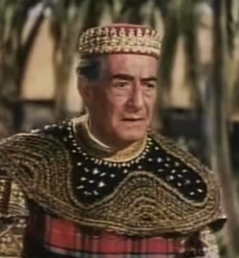 Ralph Moody in Road to Bali - cropped screenshot